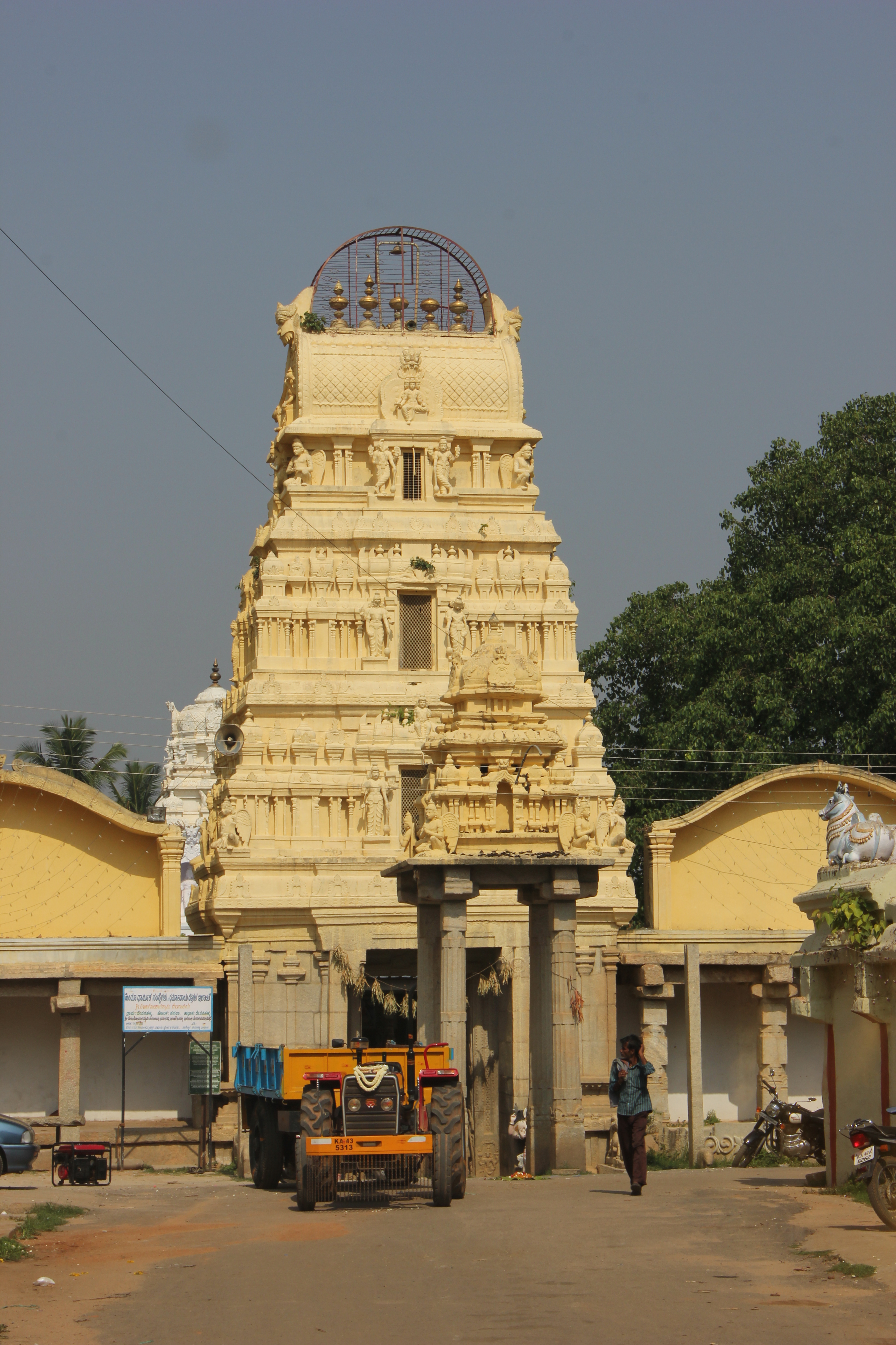 The Venugopala swamy temple dates to the rule of the local Yelahanka Bhupala chiefs in the 17th century. They ruled the region around modern Bangalore, Karnataka state, India